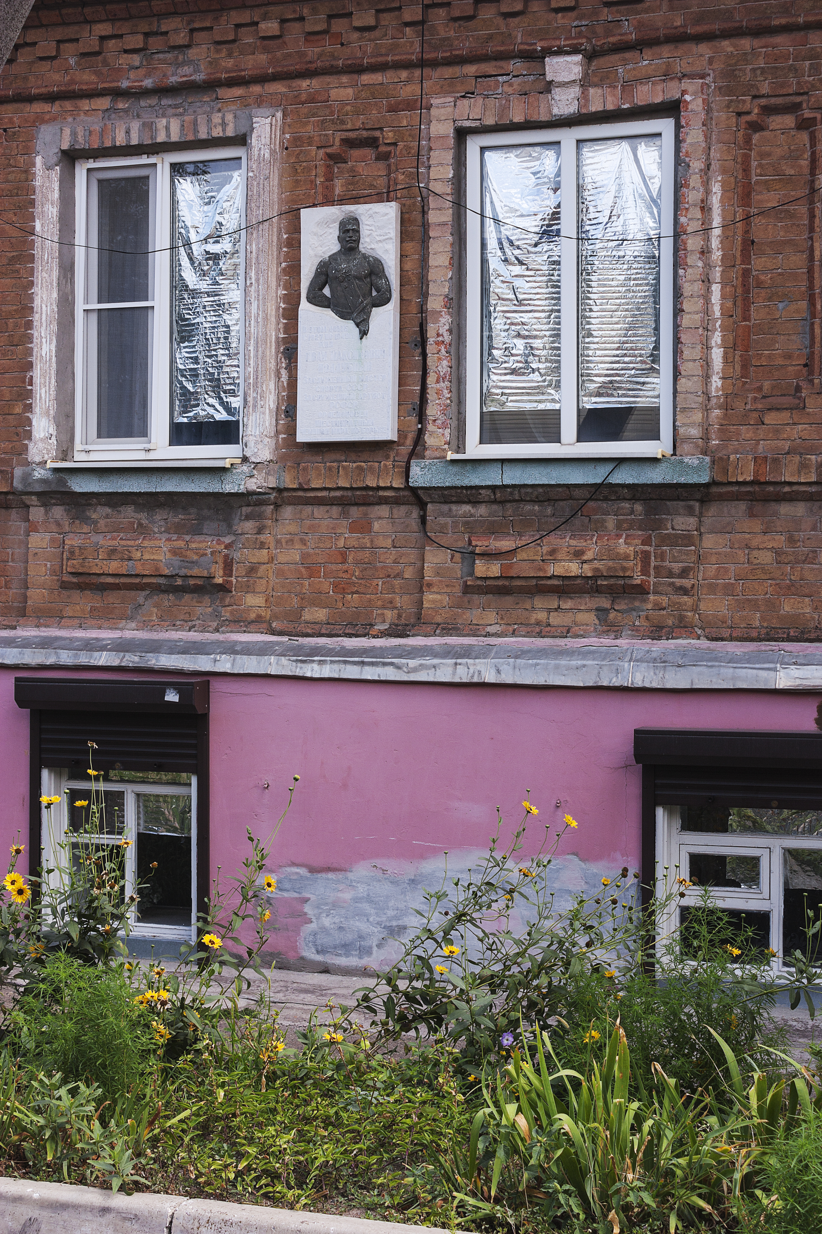 The house in which he lived Russian athlete, Honored Artist of the RSFSR, Honored Master of Sports, world champion in Greco-Roman wrestling world IM Poddubny Street Soviets, 179, Yeisk, Yeisk district, Krasnodar region